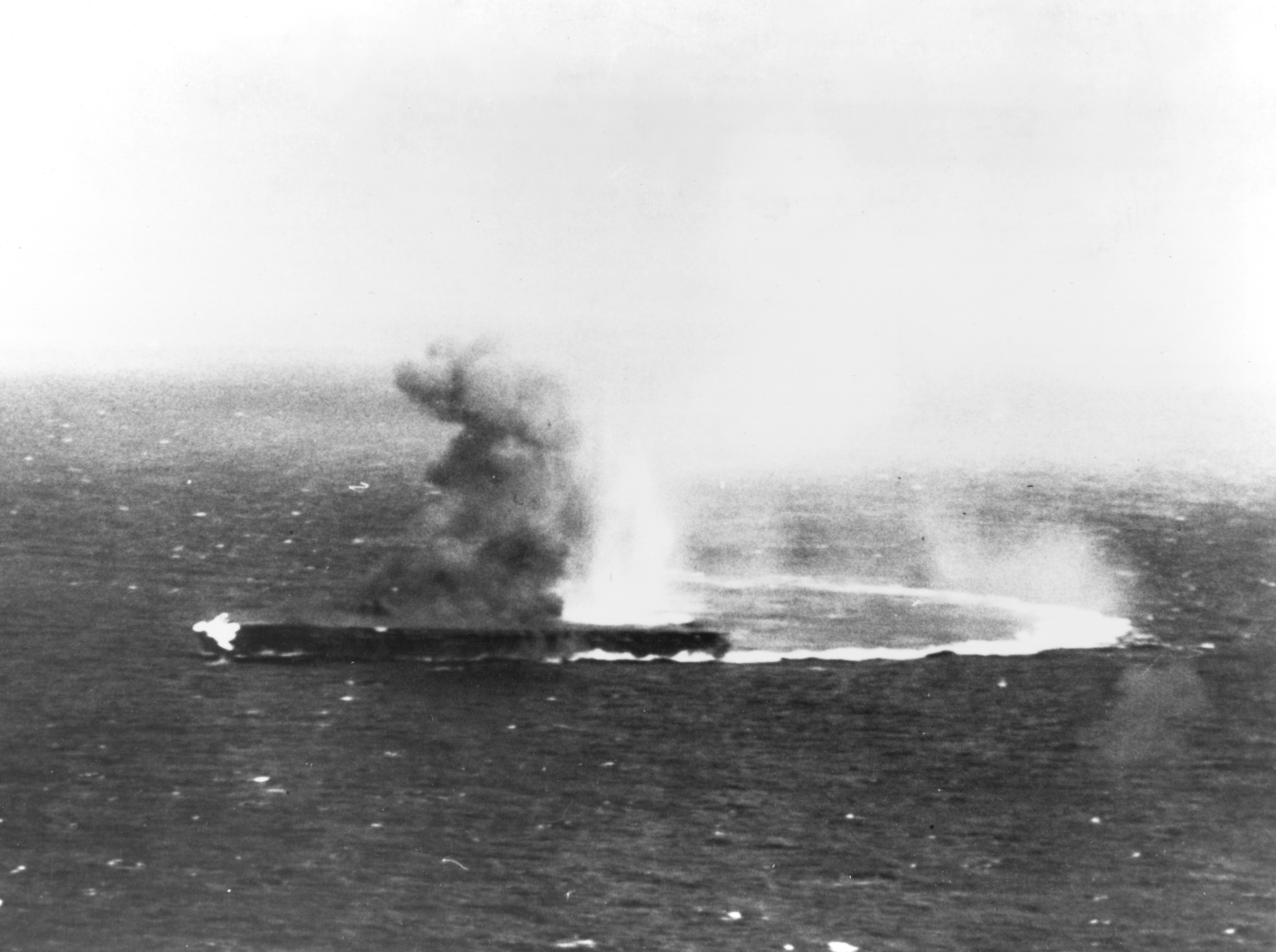 Japanese aircraft carrier Shōkaku under dive bombing attacks by USS Yorktown (CV-5) planes, during the morning of 8 May 1942. Flames are visible from a bomb hit on her forecastle.